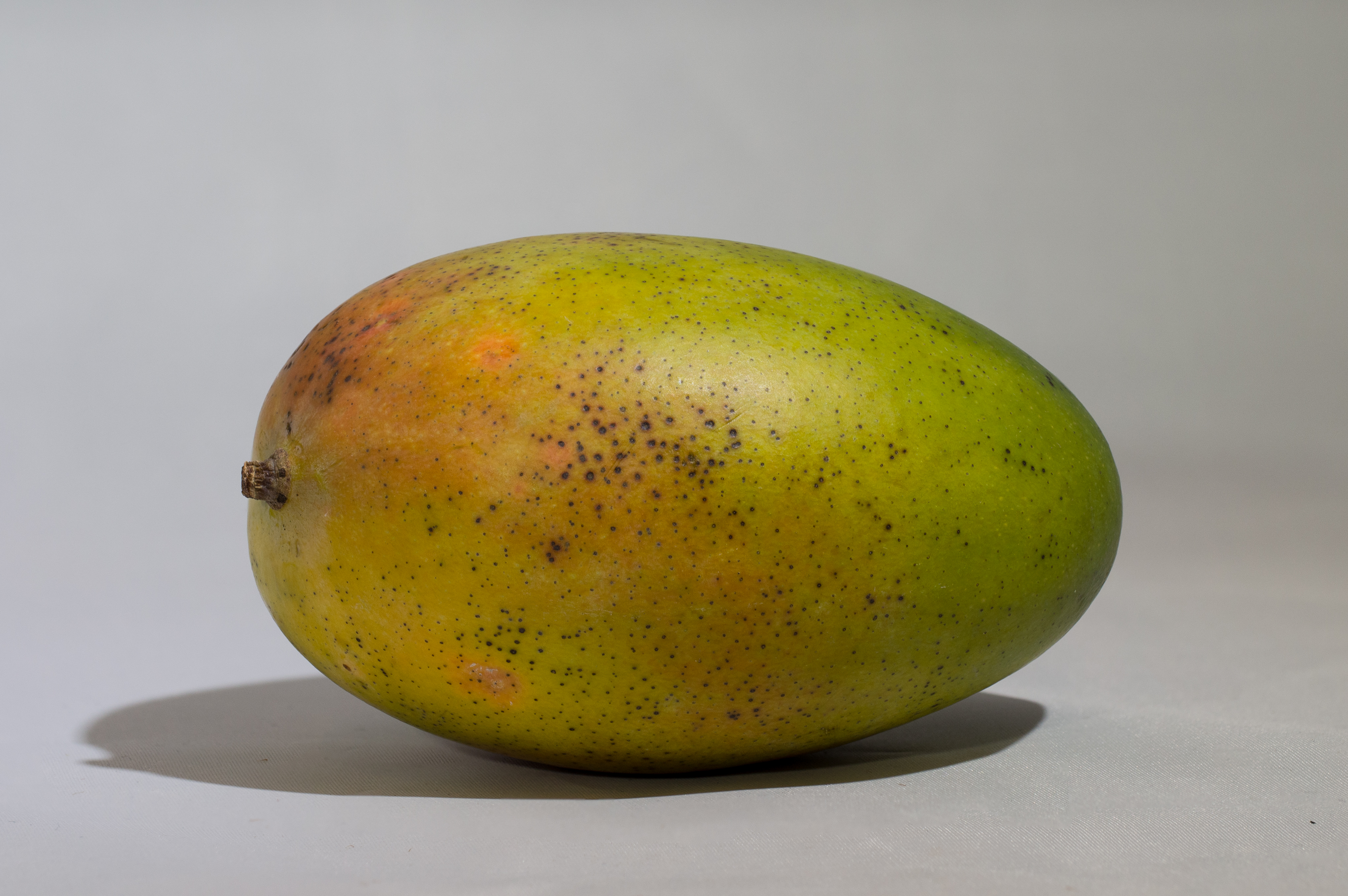 Mango.